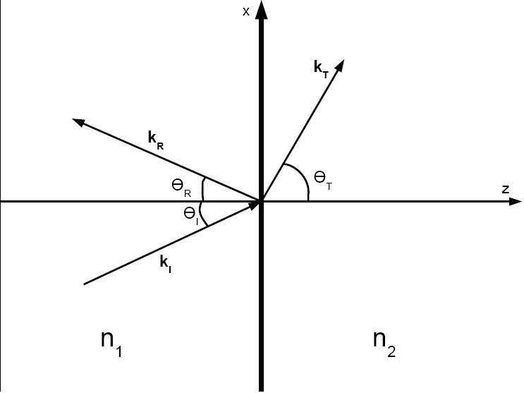 A diagram of a plane wave incident on a dielectric of refractive index n 2 {\displaystyle n_{2